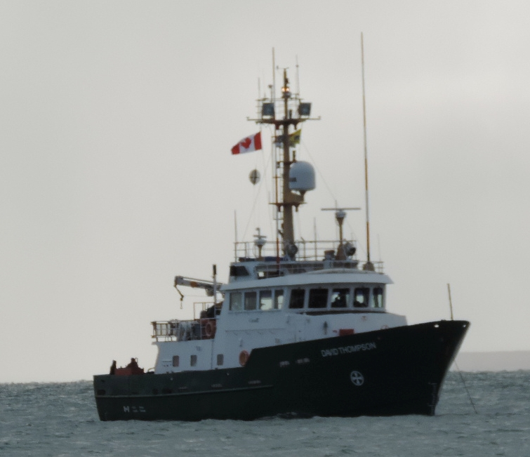 RV David Thompson, Parks Canada Research & Survey Vessel, off King William Island, 2019. The vessel is supporting the archeological research on the wreck of the HMS Erebus (1826).